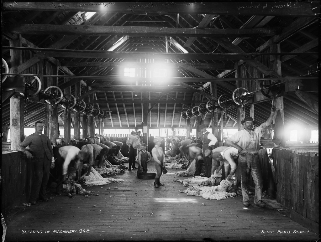 Format: Glass plate negative. Repository: Tyrrell Photographic Collection, Powerhouse Museum Part Of: Powerhouse Museum Collection General information about the Powerhouse Museum Collection is available at Persistent URL: Acquisition credit line: Gift of Australian Consolidated Press under the Taxation Incentives for the Arts Scheme, 1985